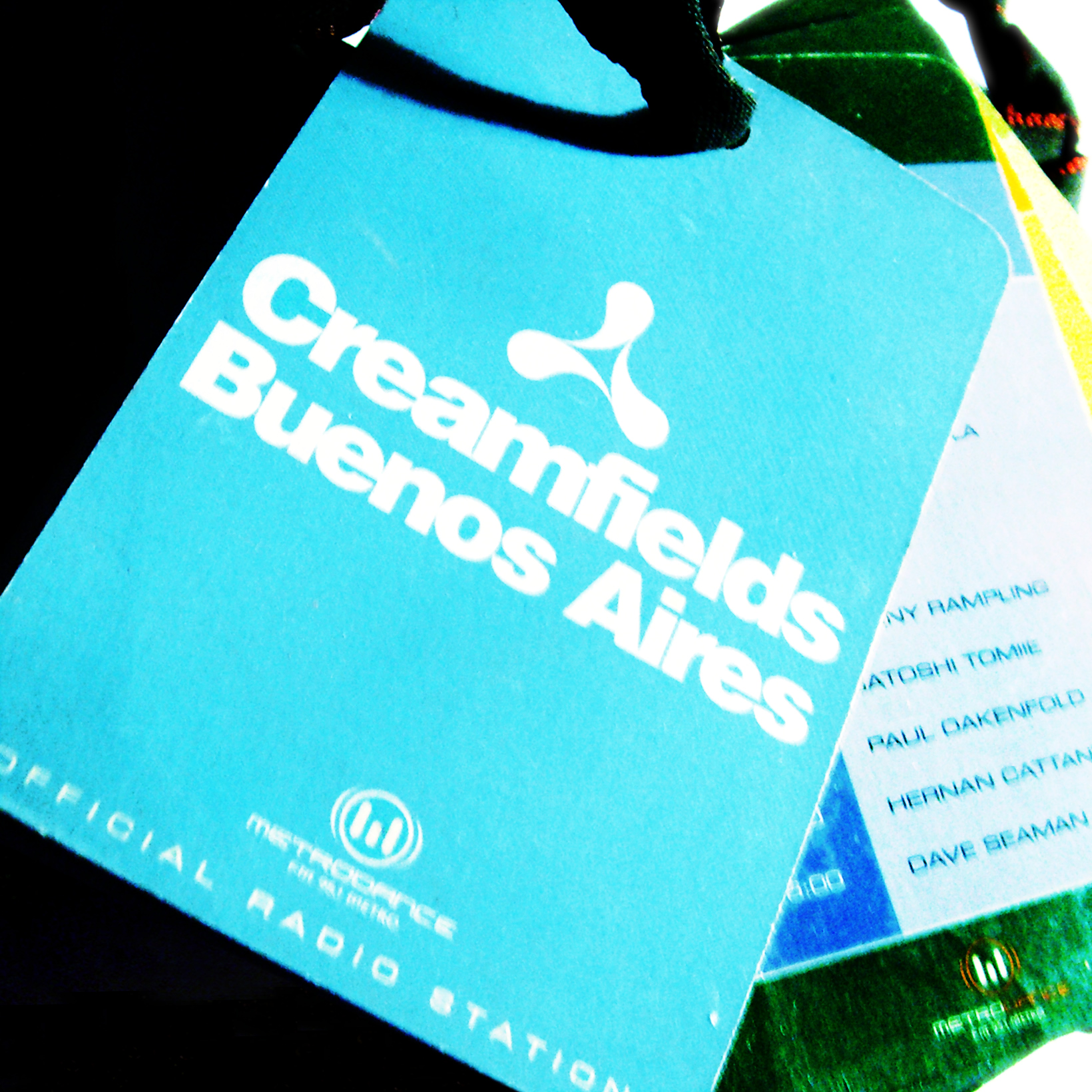 creamfields